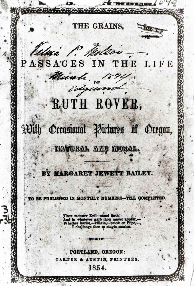 Ruth Rover is Margaret Jewett Smith Bailey (1812–1882) an American author from Oregon